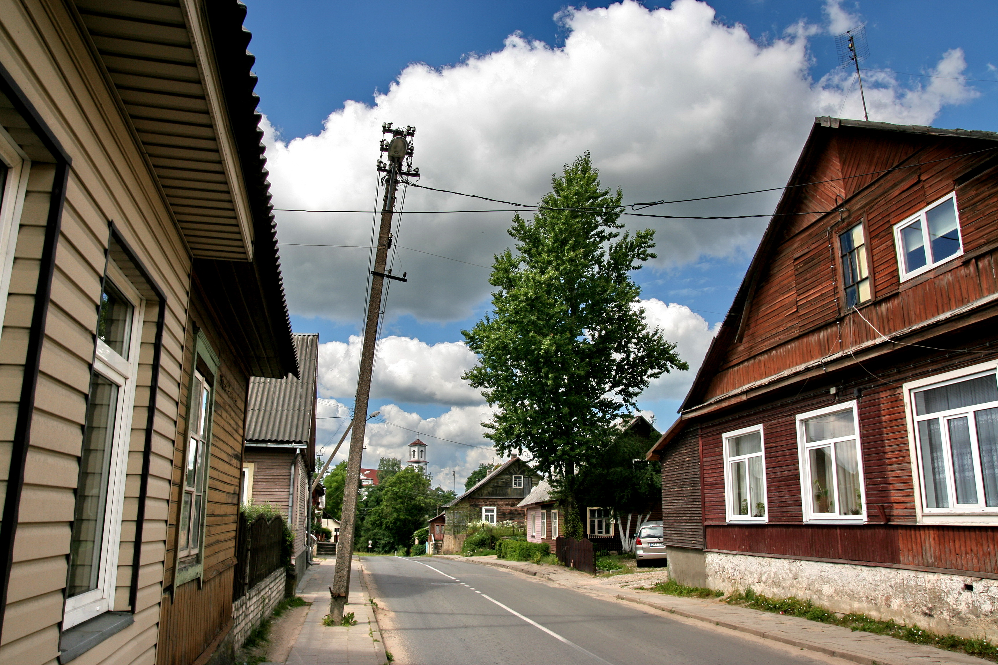 Nemenčinė city old streets